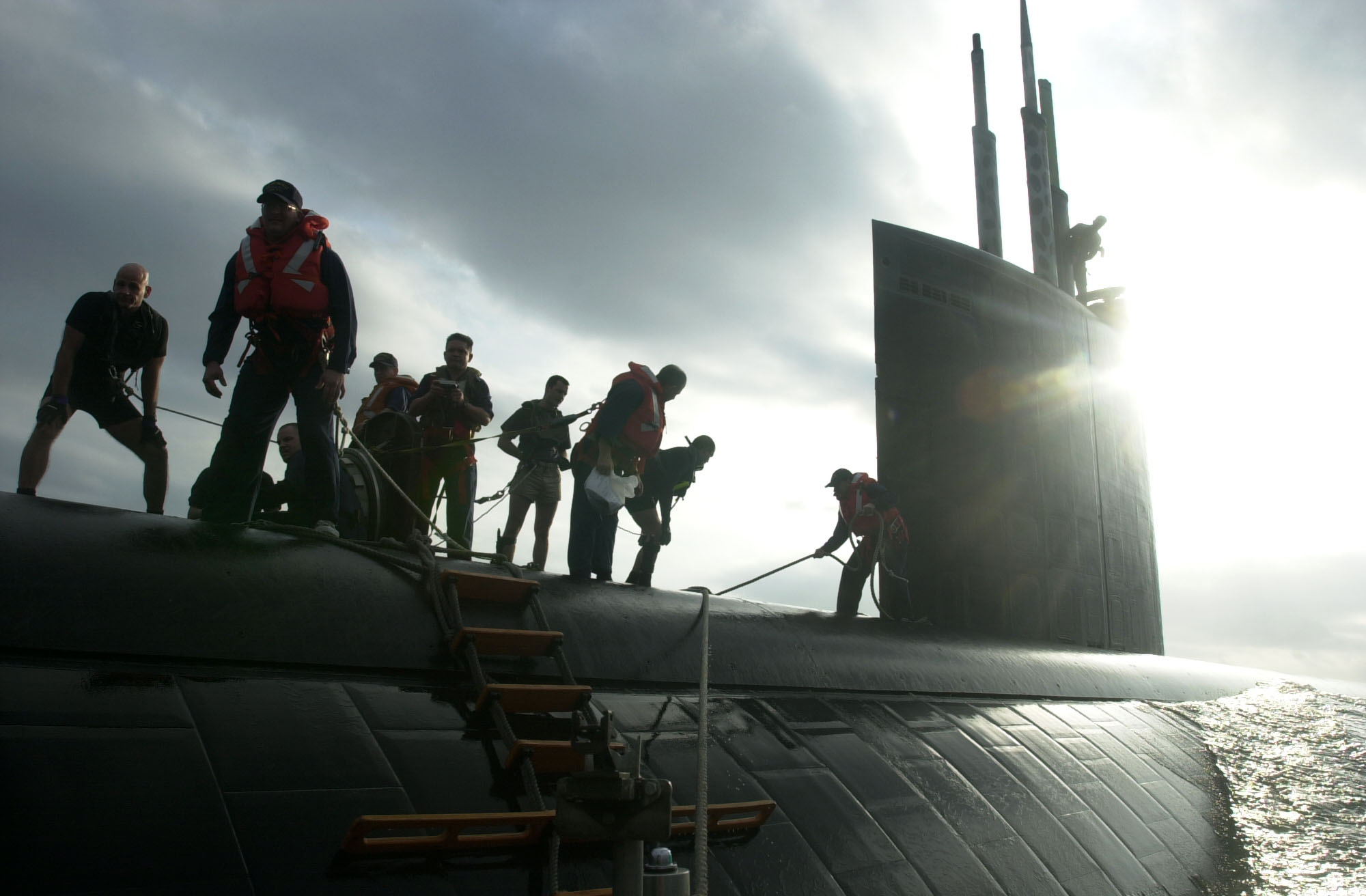 020113-N-6520M-013 At sea aboard USS Lake Champlain (CG 57) -- Crewmembers on USS Greeneville (SSN 772) wait for USS Lake Champlain's Rigid Hull Inflatable Boat (RHIB) to maneuver into position so they can unload supplies and personnel. USS Greeneville is surfacing to receive food, supplies and personnel from Champlain. USS Lake Champlain and USS Greeneville are both patrolling the seas in support of Operation Enduring Freedom.